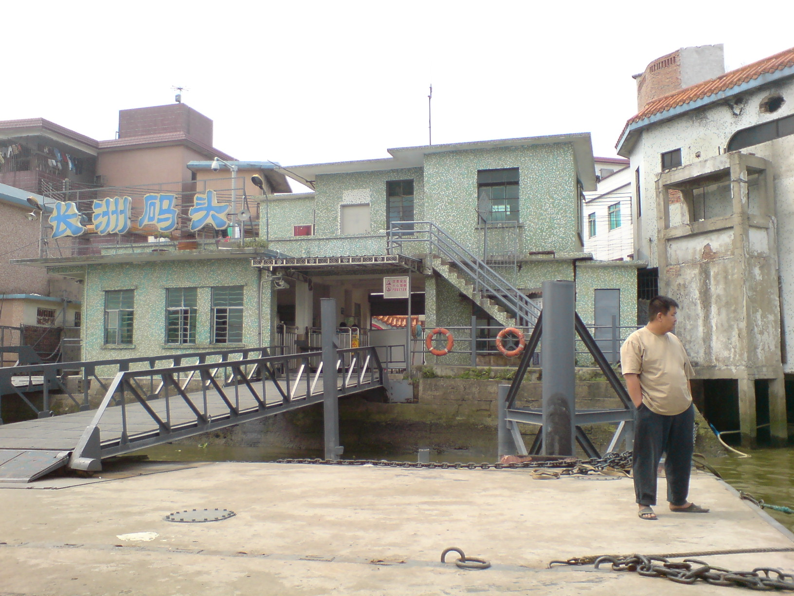 Changzhou Ferry Pier